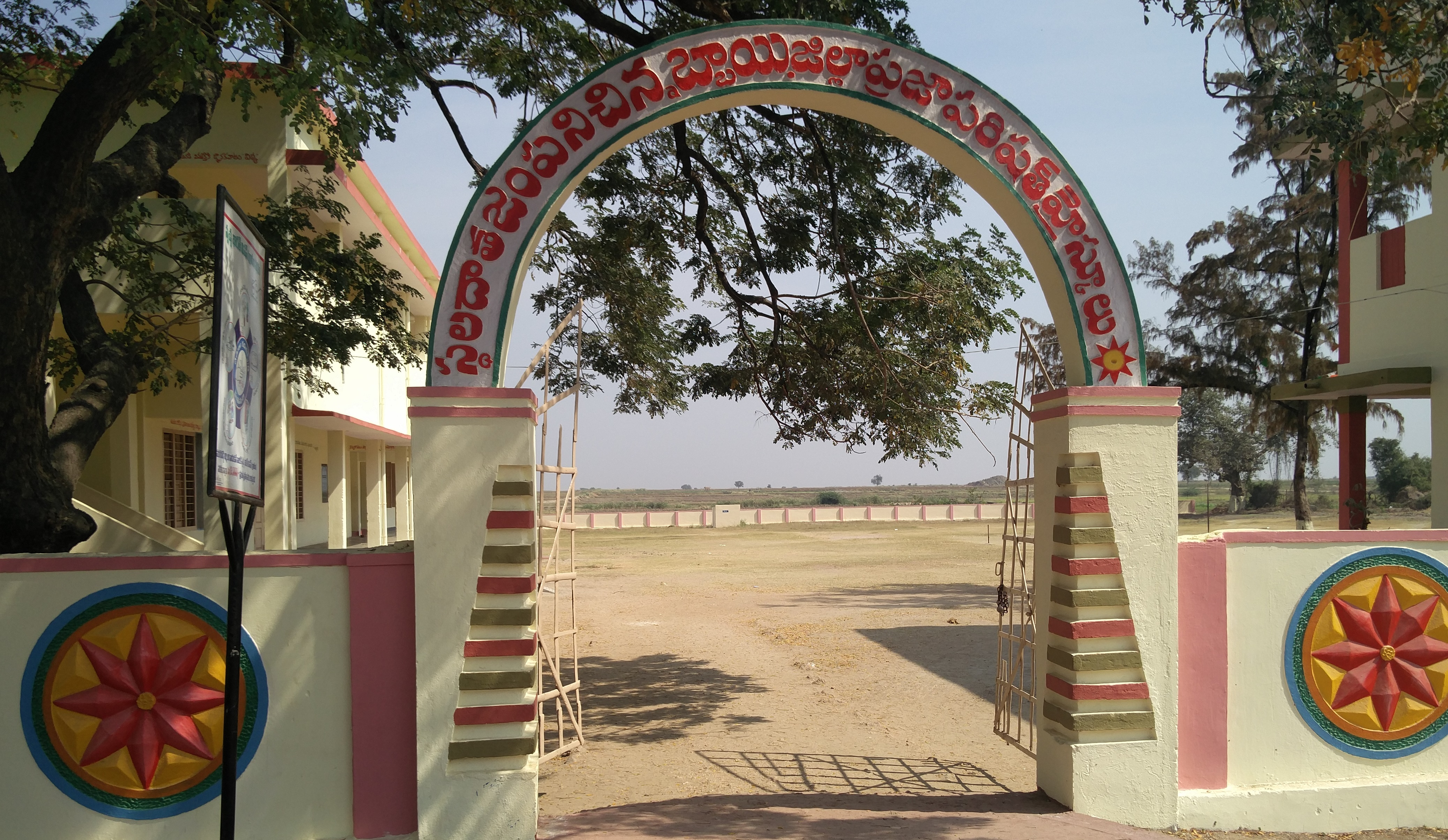 school